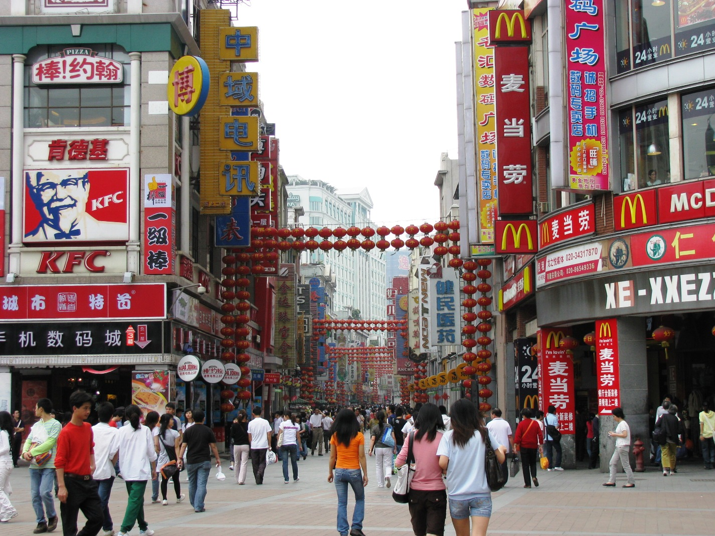 Shangxiajiu Car-free zone in Guangzhou, China.中国广州上下九步行街。